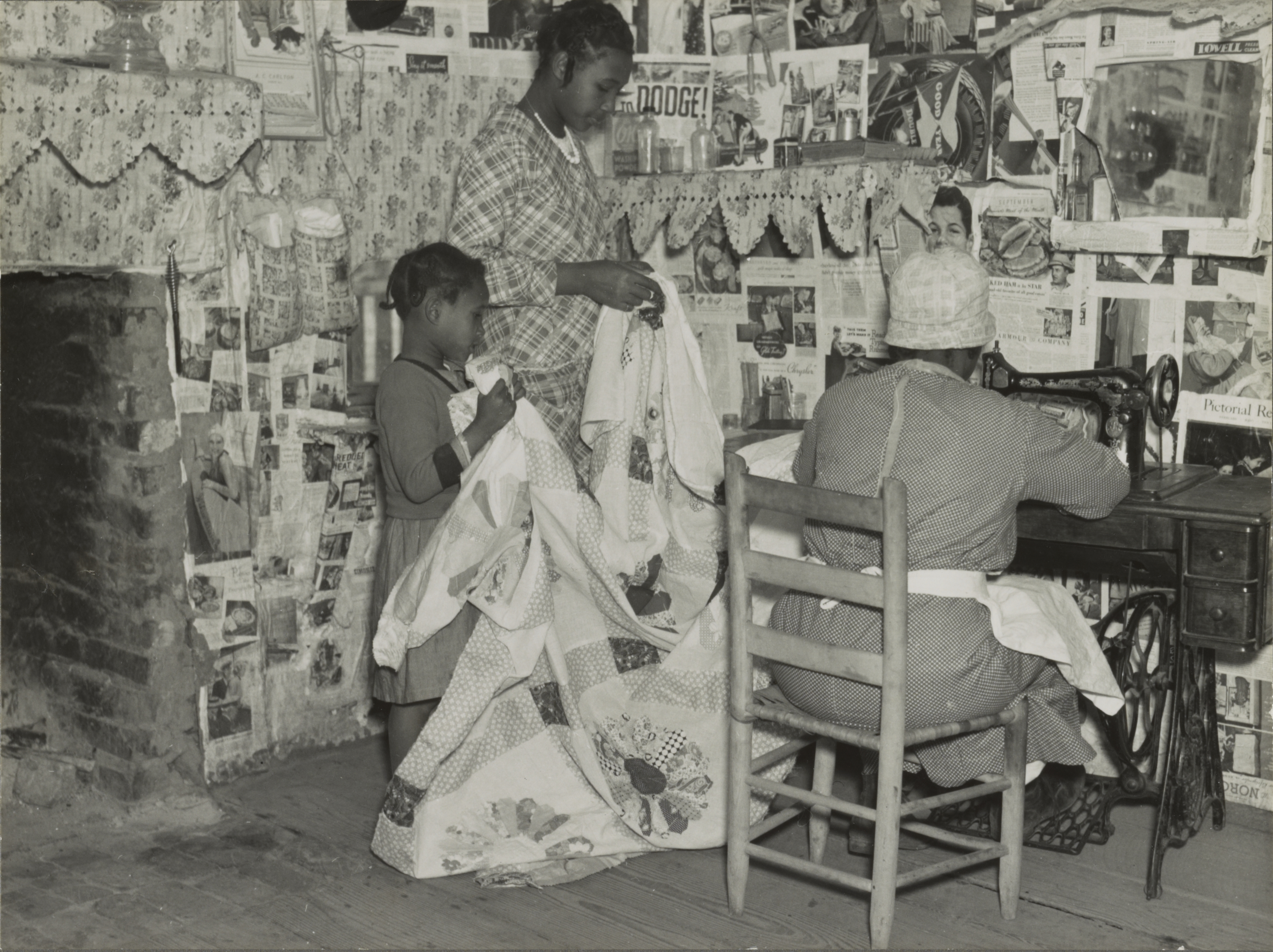 Title: Sewing a quilt. Gee's Bend, Alabama Other Title: Jennie Pettway and another girl with the quilter Jorena Pettway